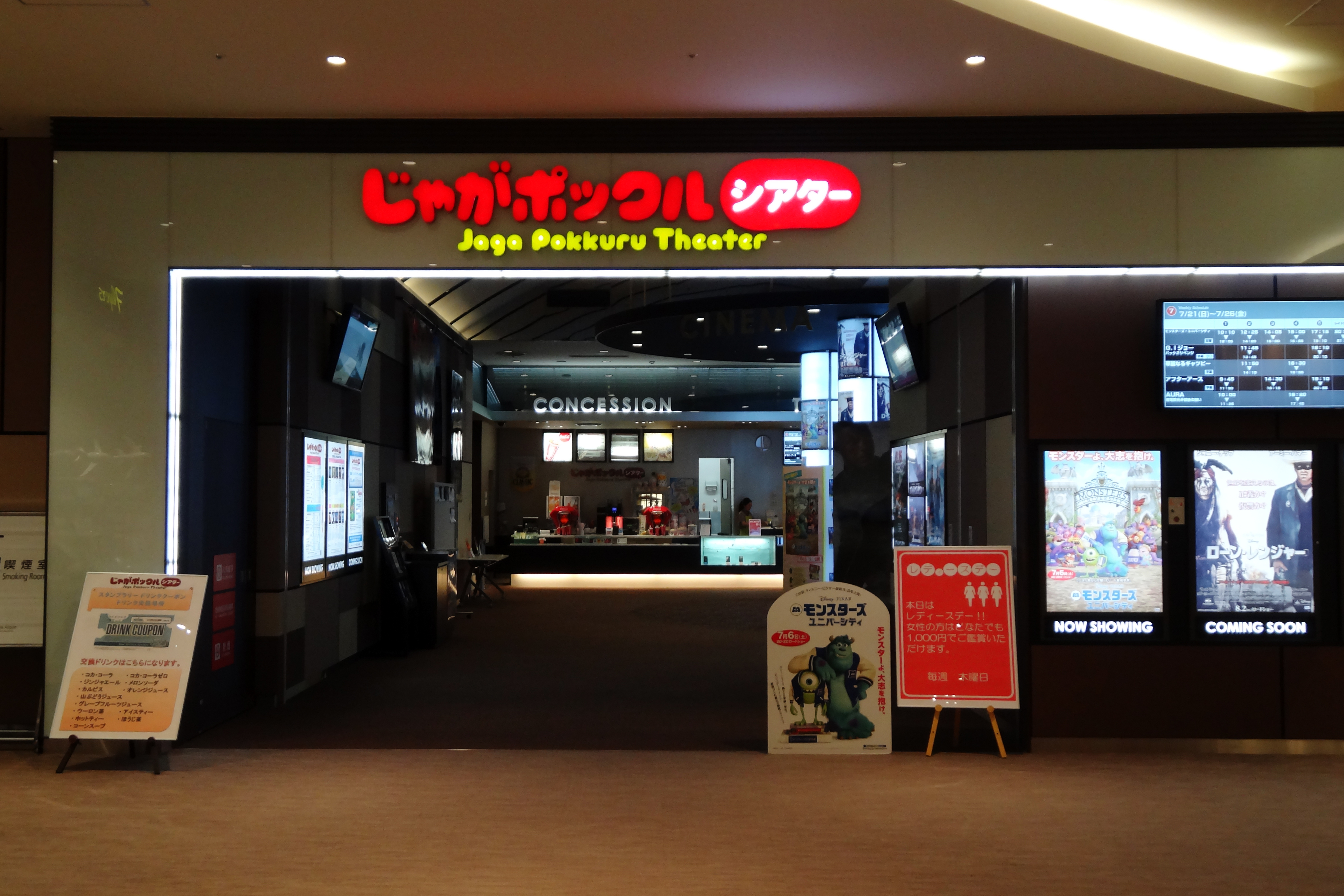 New Chitose Airport in Chitose, Hokkaido prefecture, Japan.